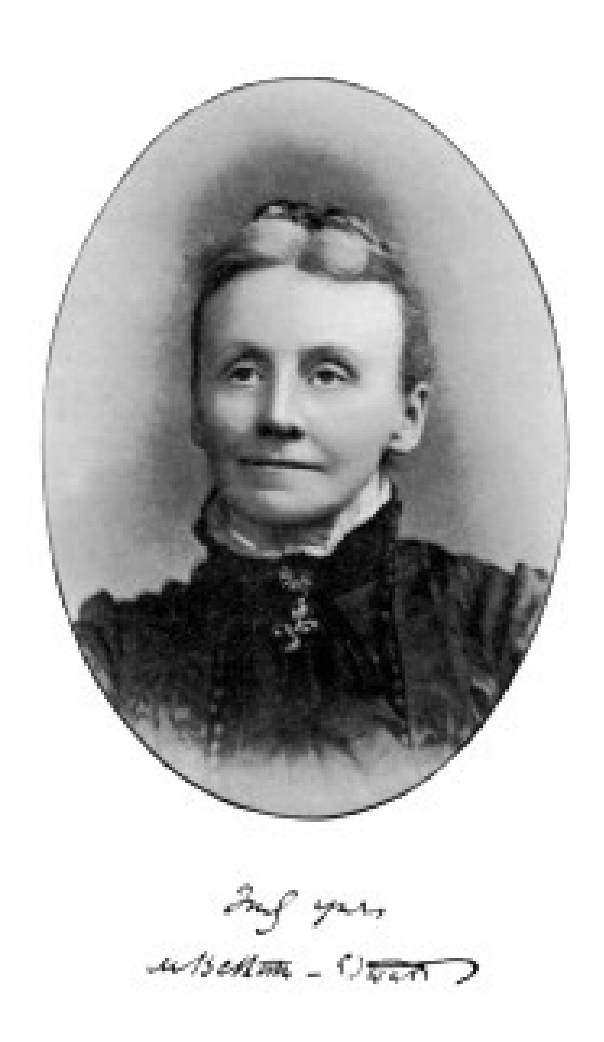 Matilda Betham-Edwards (March 4, 1836 Westerfield, Ipswich – January 4, 1919 Hastings) was an English novelist, travel writer and francophile. She was also a prolific poet and wrote several children's books.